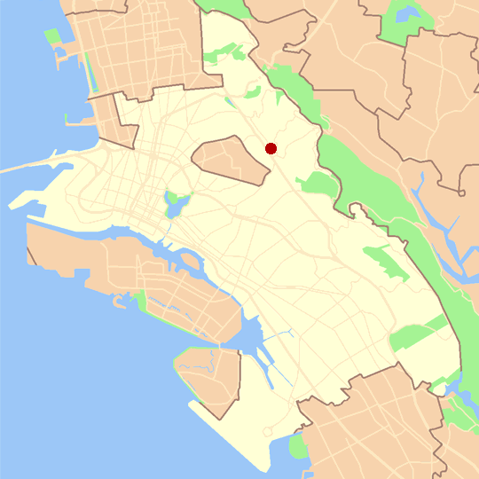 Map showing the location of Montclair in the city of Oakland, California. Created by User:Nogood using U.S. Census Bureau data.